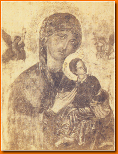 Our Lady of Perpetual Help, Byzantine icon said to be 13th or 14th century, before restauration